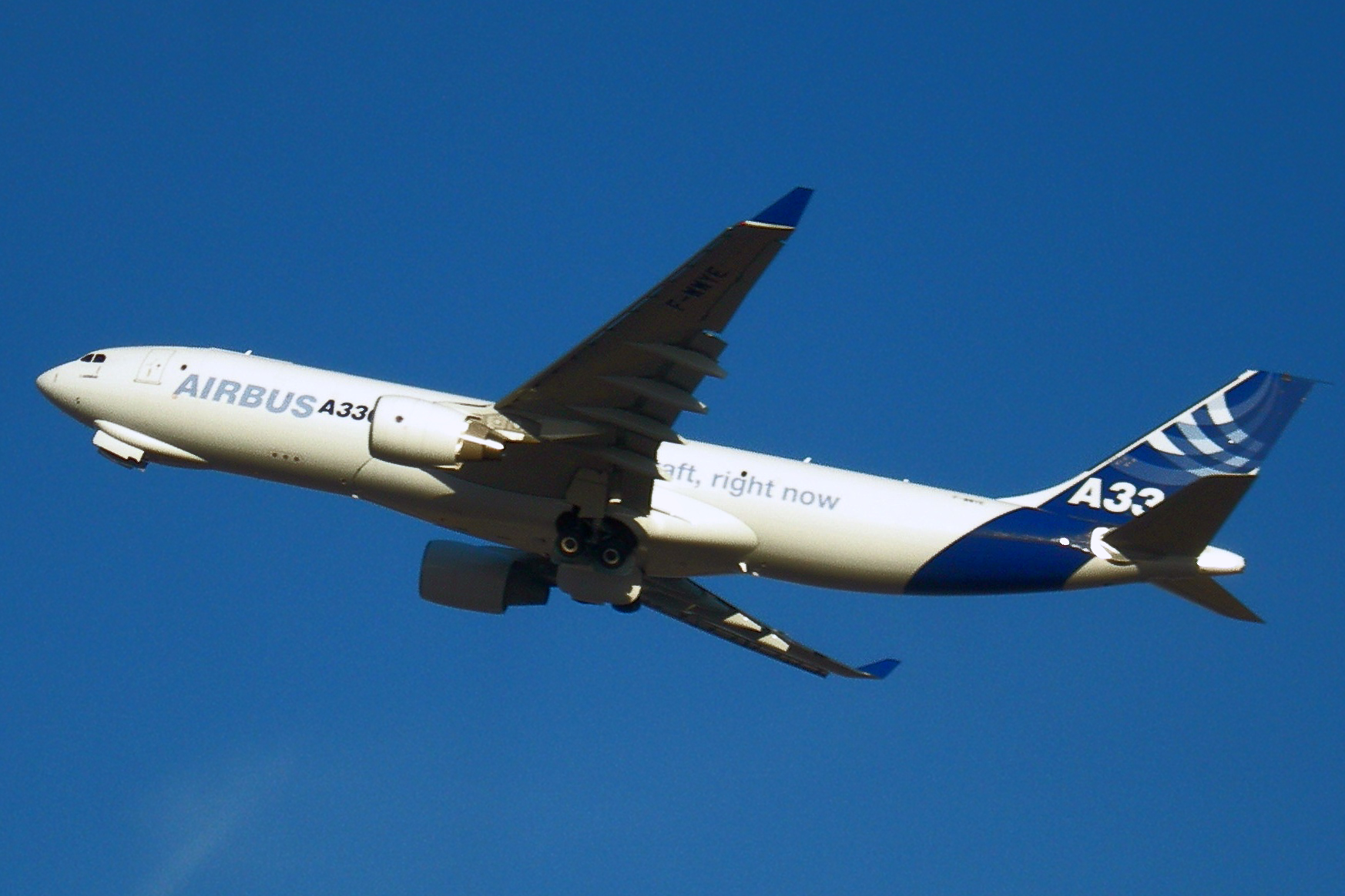 The very first Airbus A330-200F freighter. Caught at Memphis International Airport (MEM). Probably visiting FedEx.